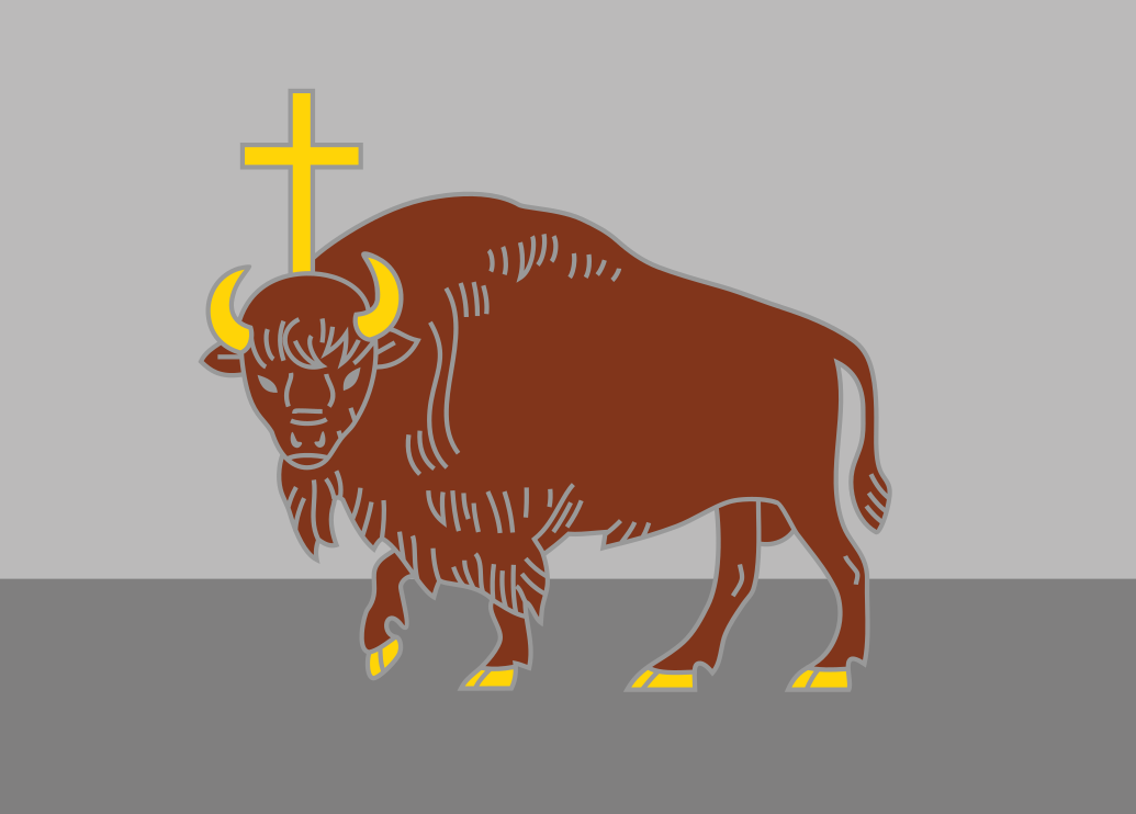 A flag of the Republic of Perloja, a micronation that existed in the chaos of the collapse of the Russian empire between 1918 and 1923 in Lithuania.